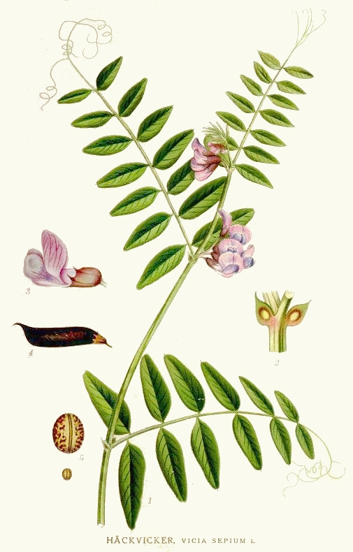 Original Description Häckvicker, Vicia sepium L.